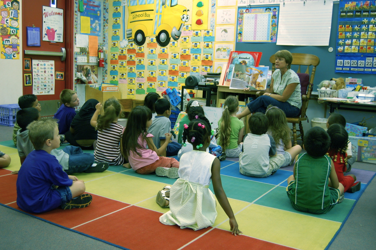 Story time in a kindergarten classroom in Marina, California.